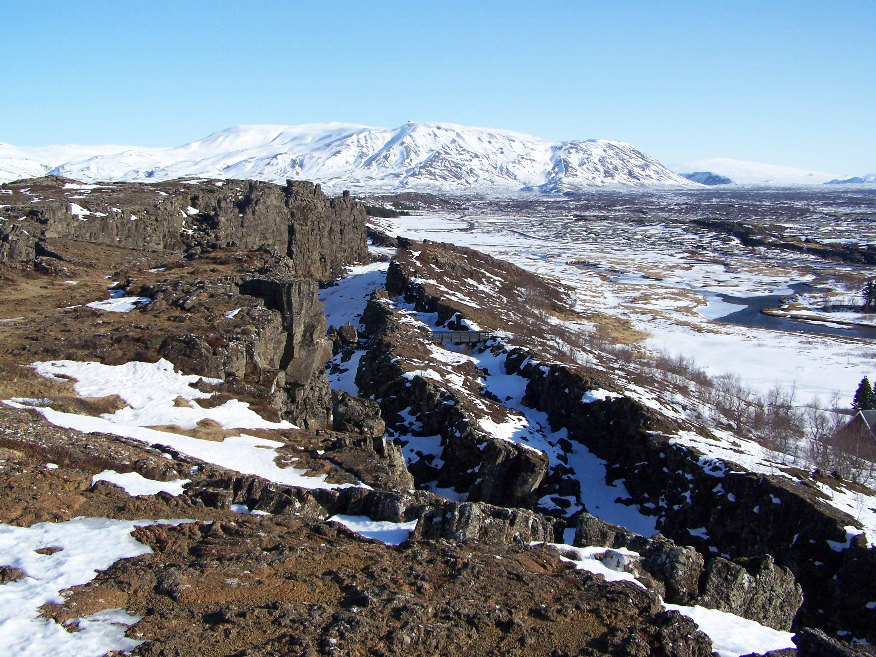 Rift in Iceland. North view along western wall.